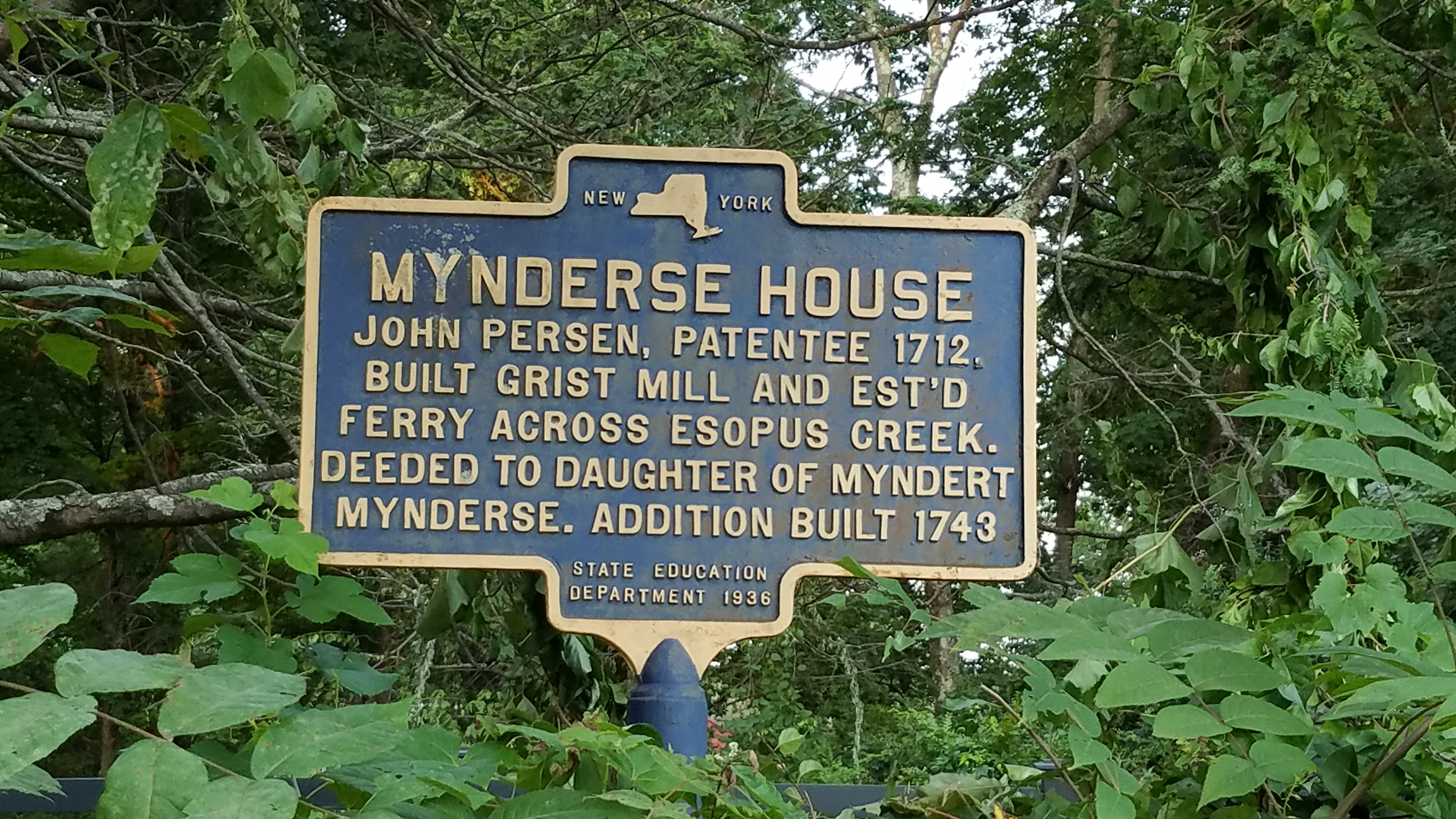 New York State historic marker for the Mynderse House in Saugerties, New York..